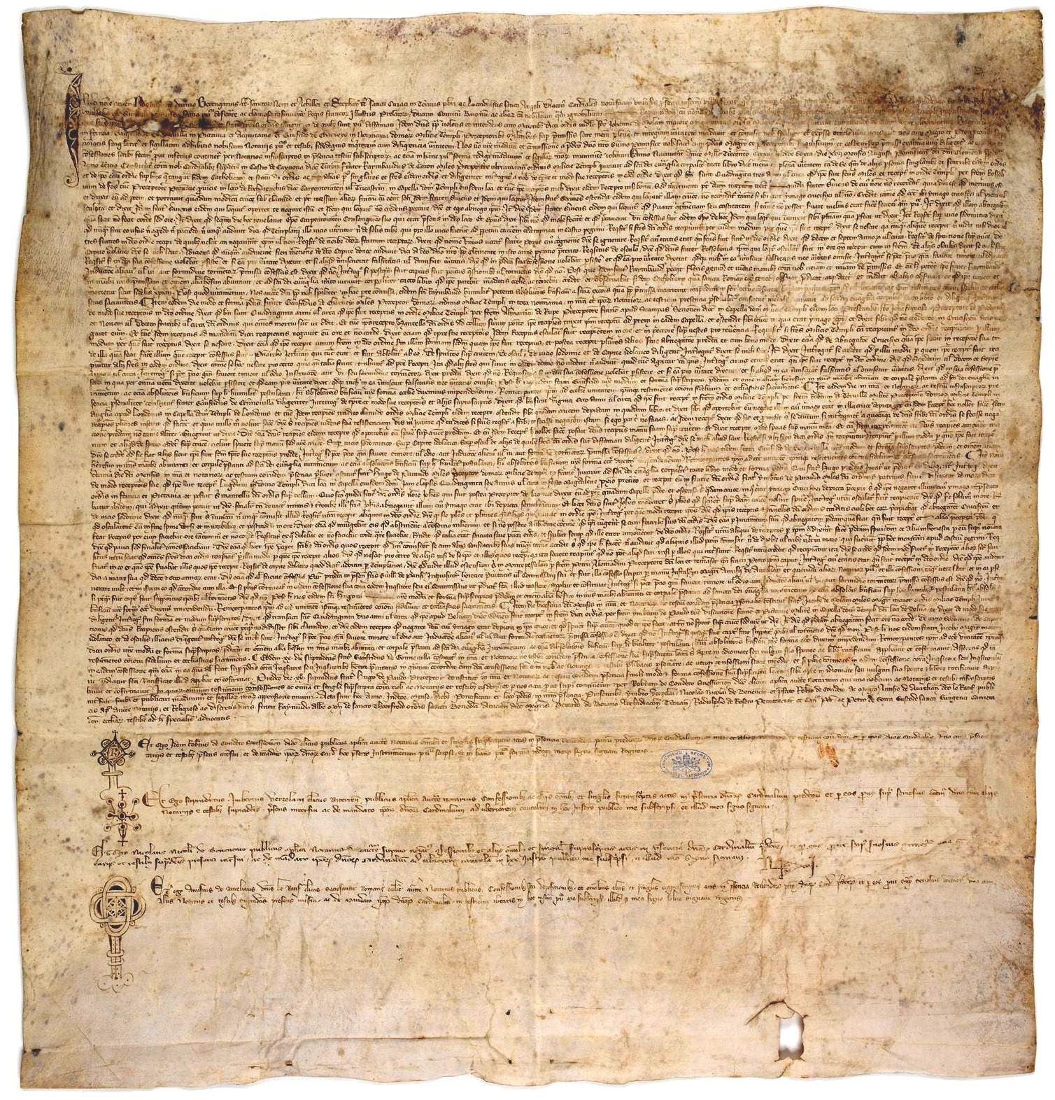 Contains absolution of Pope Clement V to the Templars